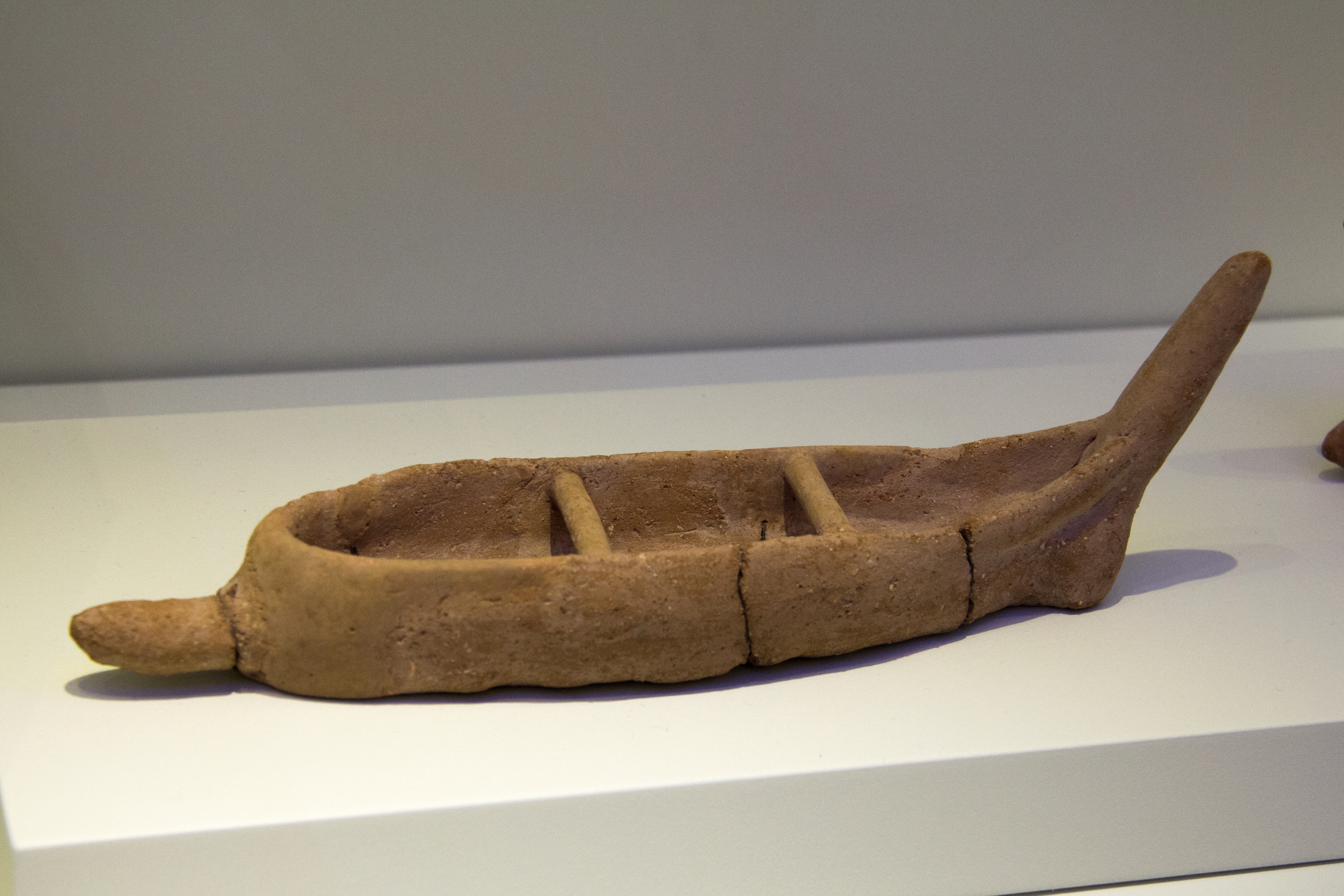 Clay boat model. They depict small boat used for fishing or for short-distance trade. Palaikastro, 2300 – 1900 BC. Archaeological Museum of Heraklion.